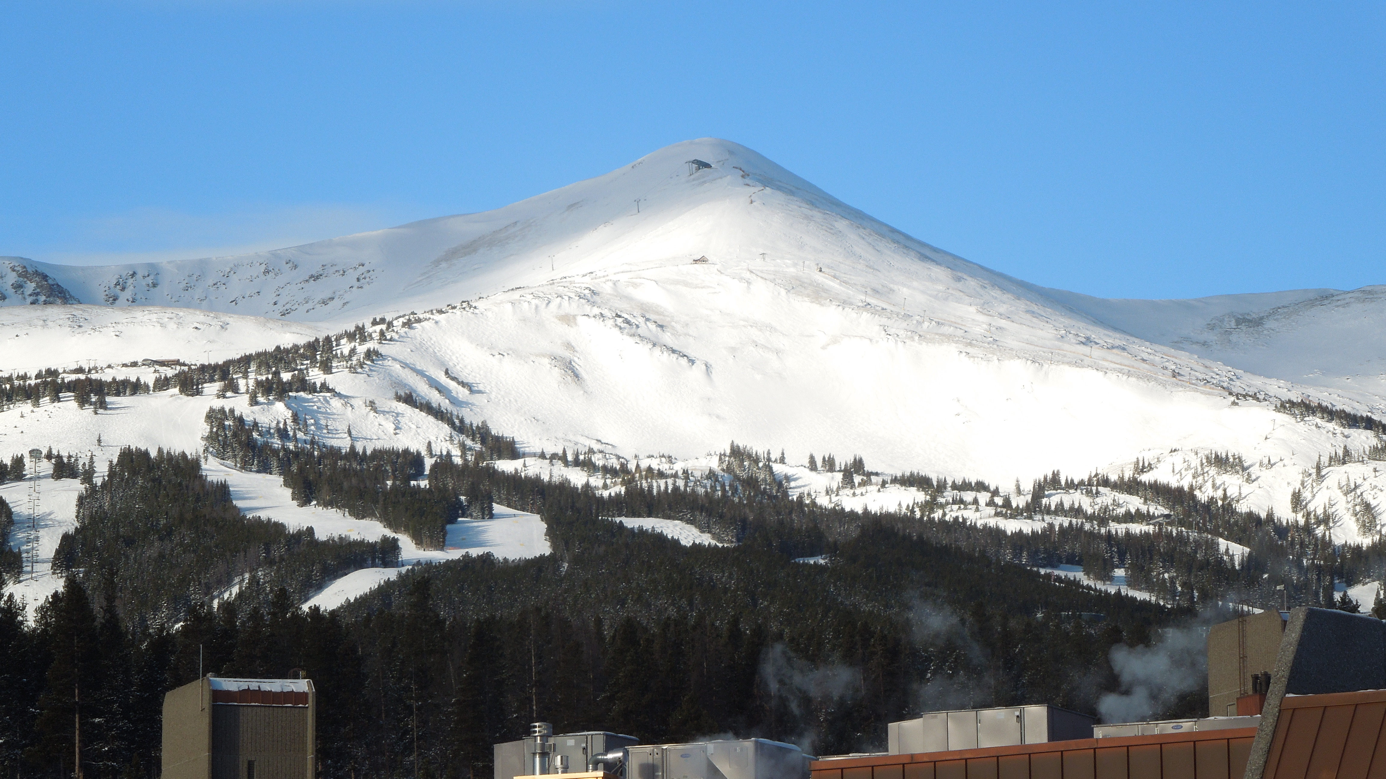 A view of Peak 8 from Quicksilver Super6 at Breckenridge Ski Resort. Taken December 26 2013. DReifGalaxyM31 (talk) 06:06, 15 January 2014 (UTC)